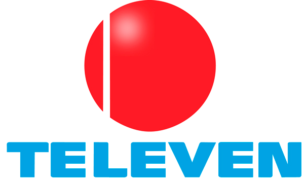 Televen logo,tv channel of Venezuela